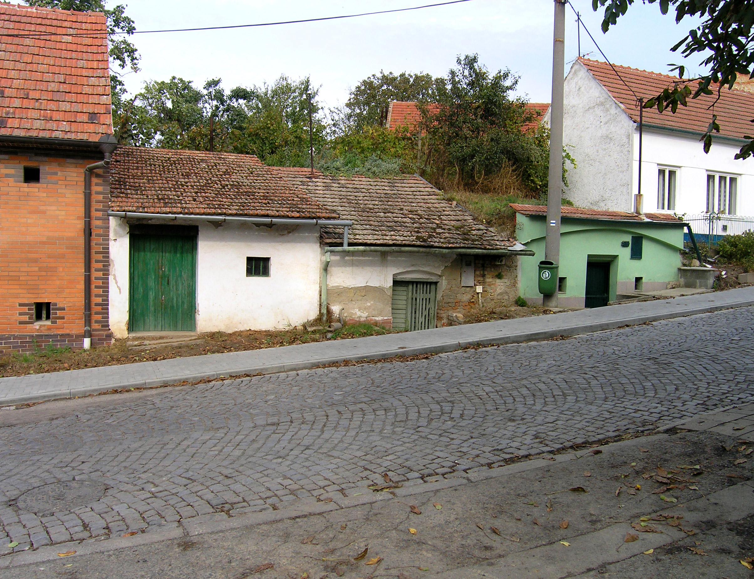 Wine cellars in Kobylí village, Czech Republic